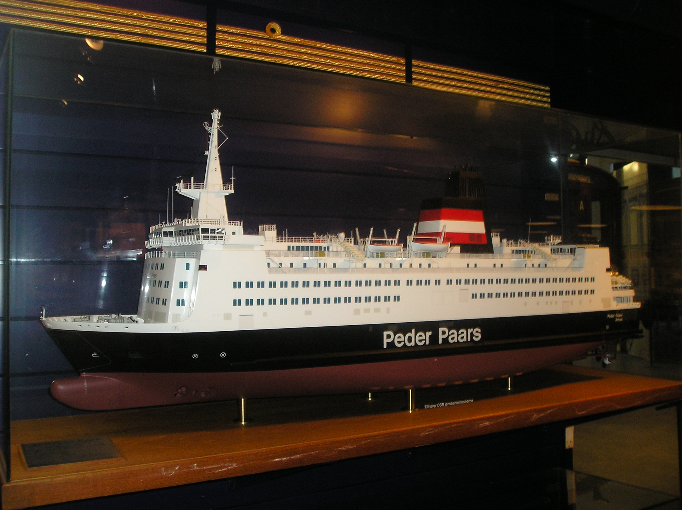 Model of the Danish ferry M/F Peder Paars from 1985 in Danmarks Jernbanemuseum. The ferry was sold to Stena Line in 1991 and renamed M/F Stena Invicta.